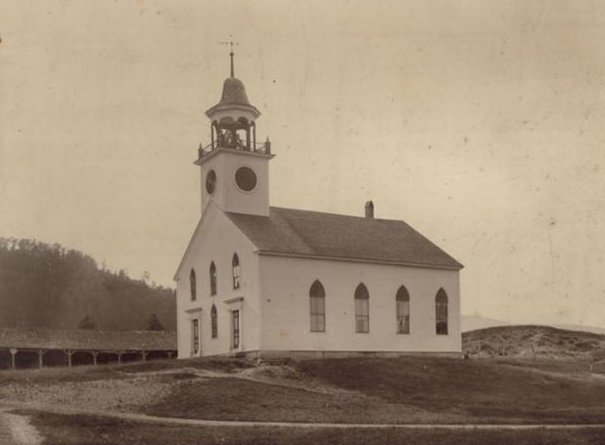 The Union Meetinghouse, Bingham, Maine.